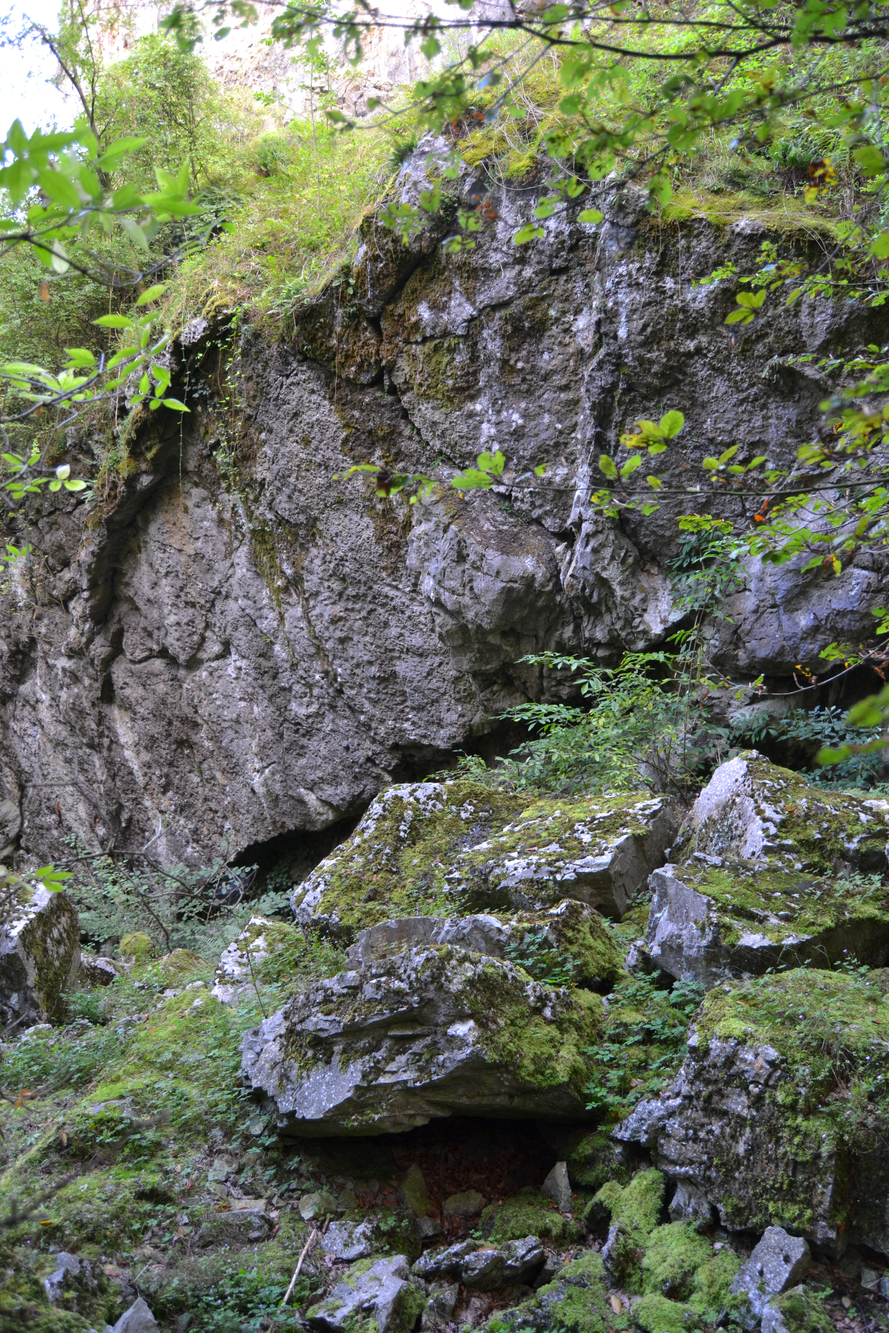 Remains of the lower cave amongst the Schmerling Caves, place of the first discovered neandertalian remains by Philippe-Charles Schmerling in 1830 - Awirs, Flémalle / Engis, Liège, Belgium